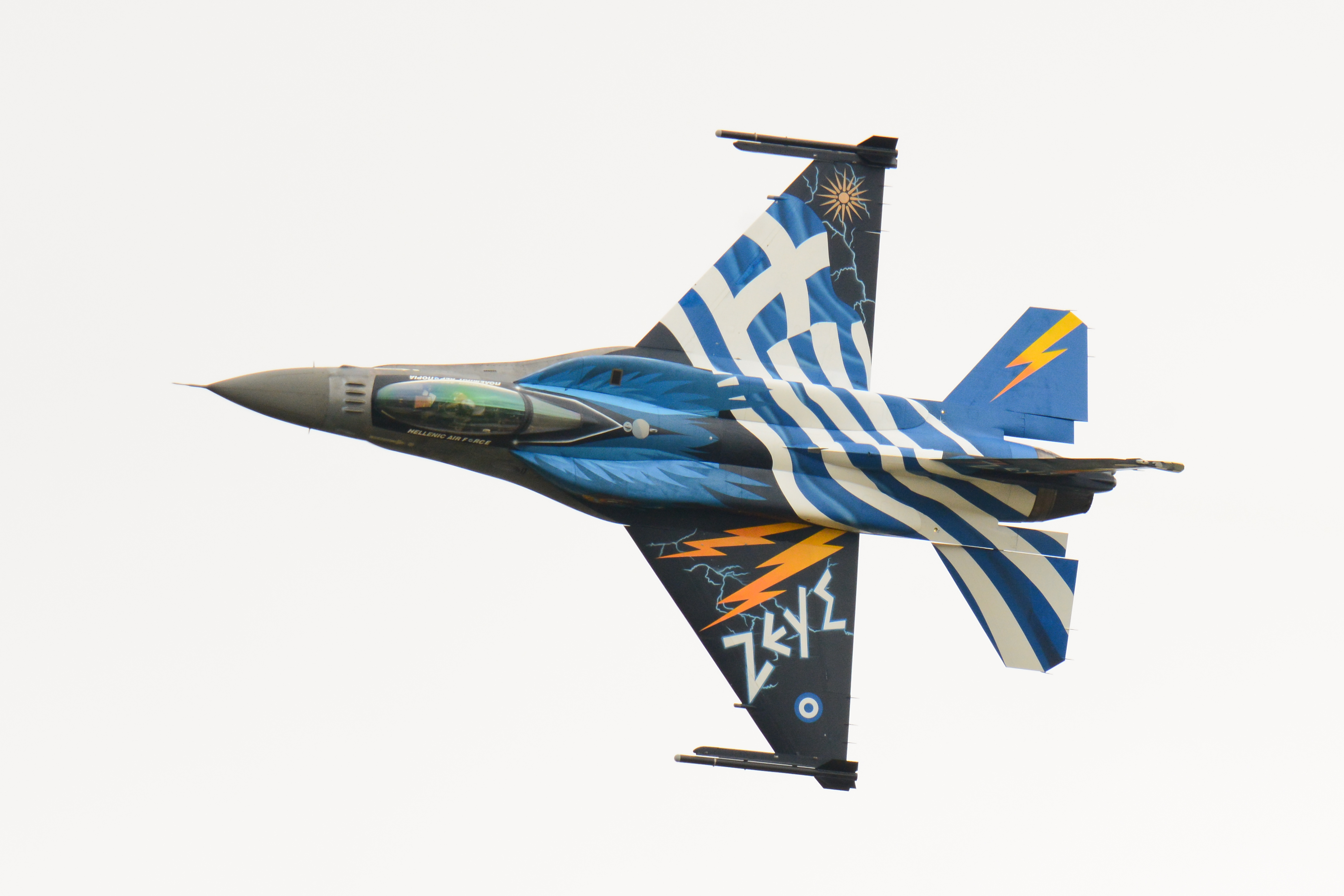 Greek Air Force F16 Zeus